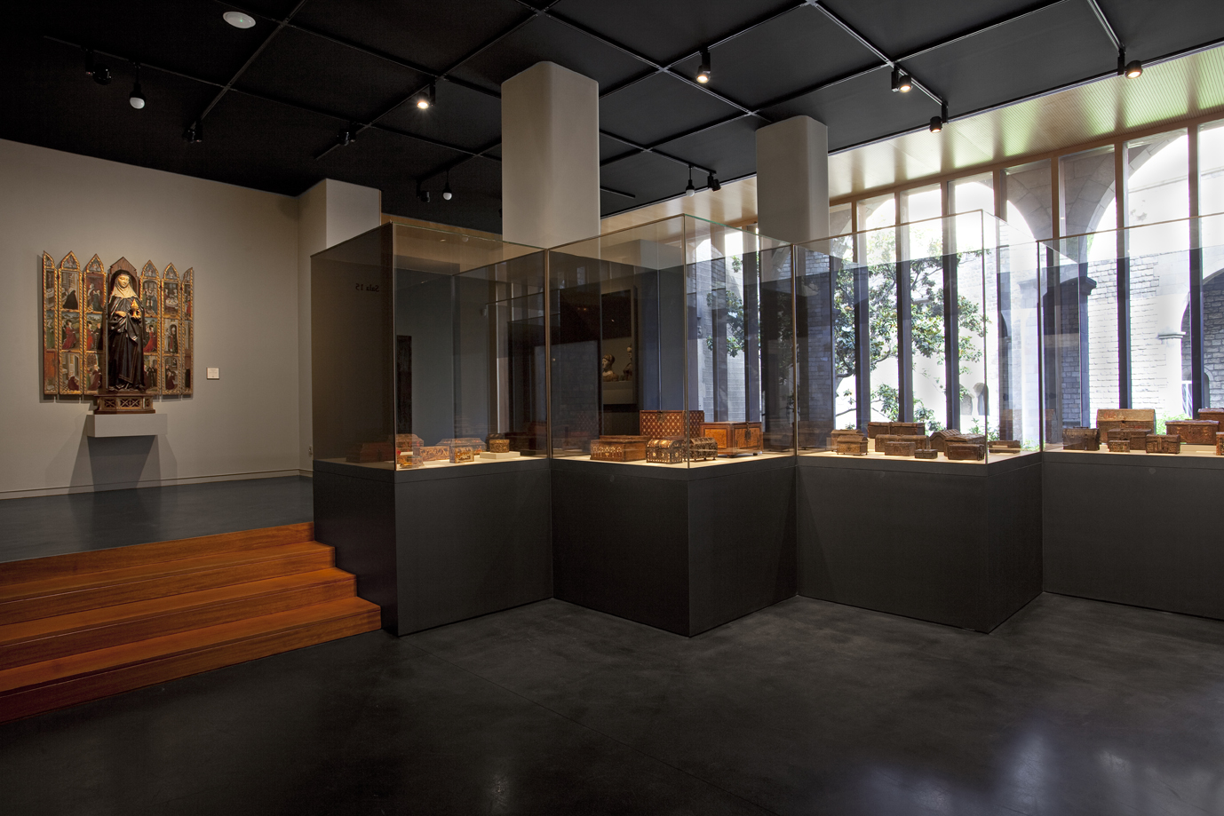 Hall 15. Sculpture